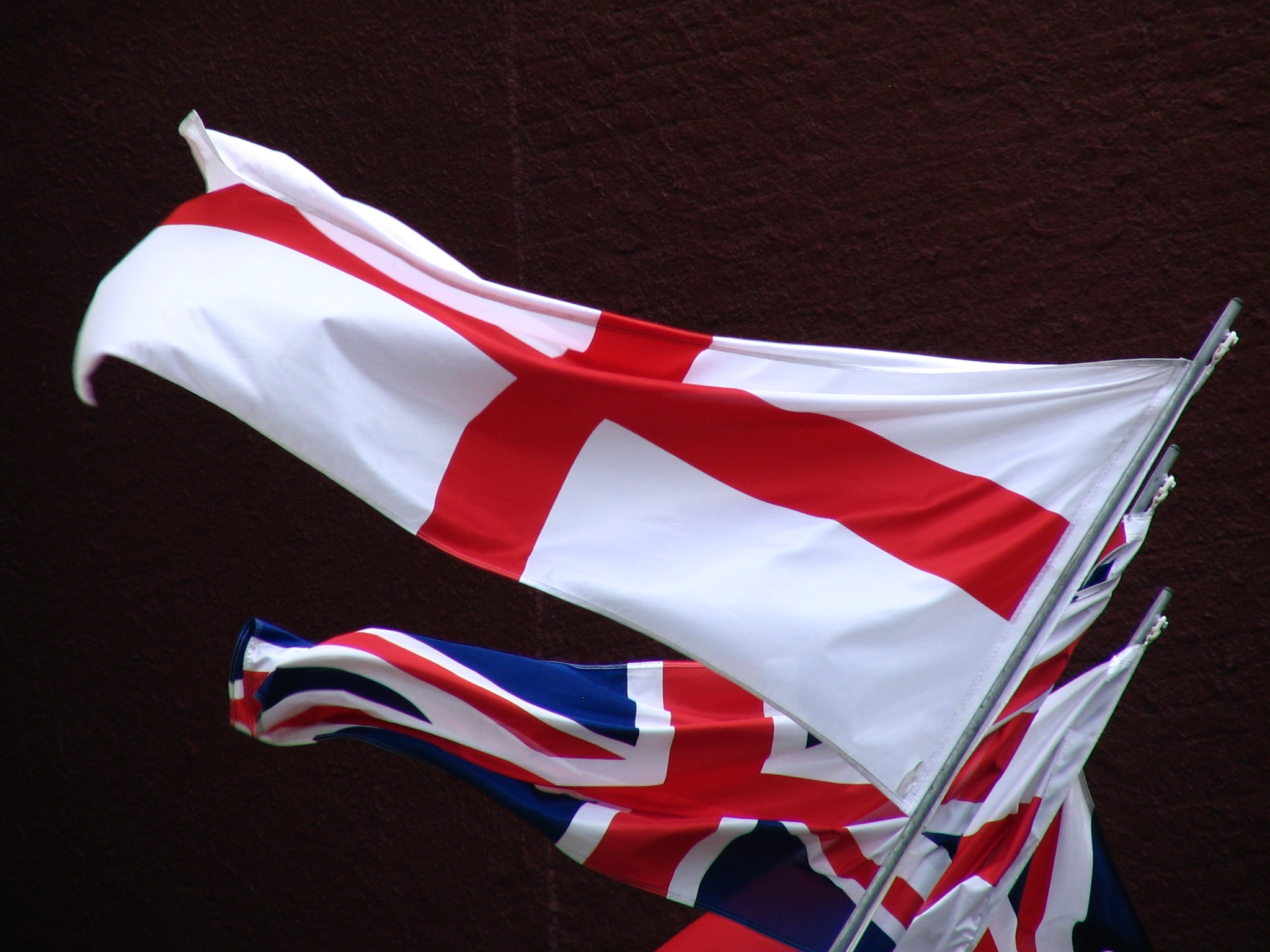 Flag of England and the Union Jack flying beside the Duke of Wellington pub, Dunedin, New Zealand